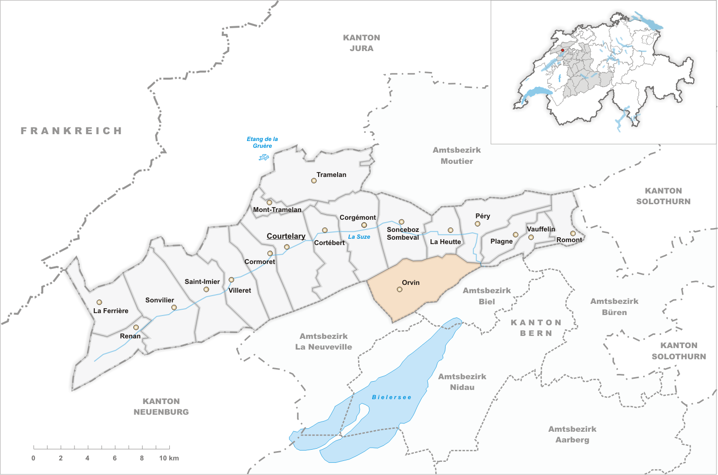 Municipality Orvin